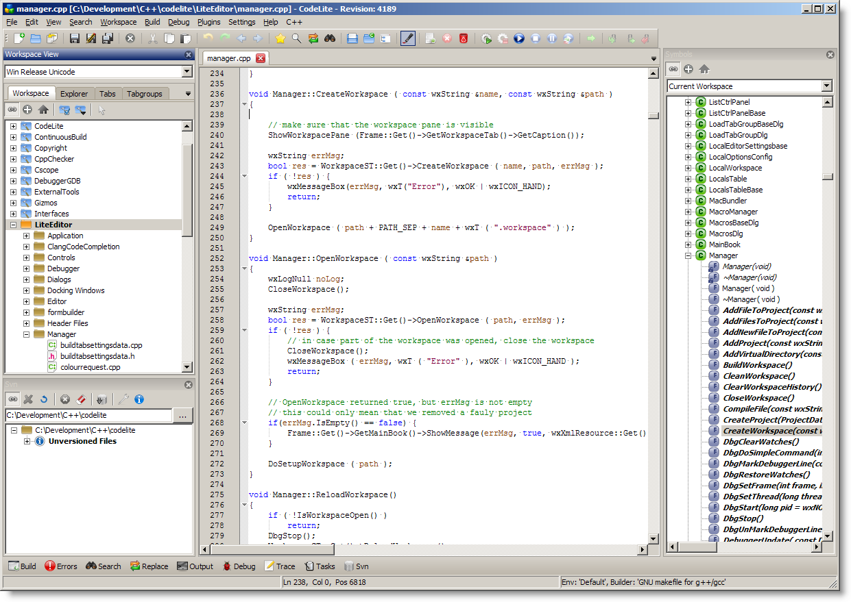 CodeLite-Screenshot